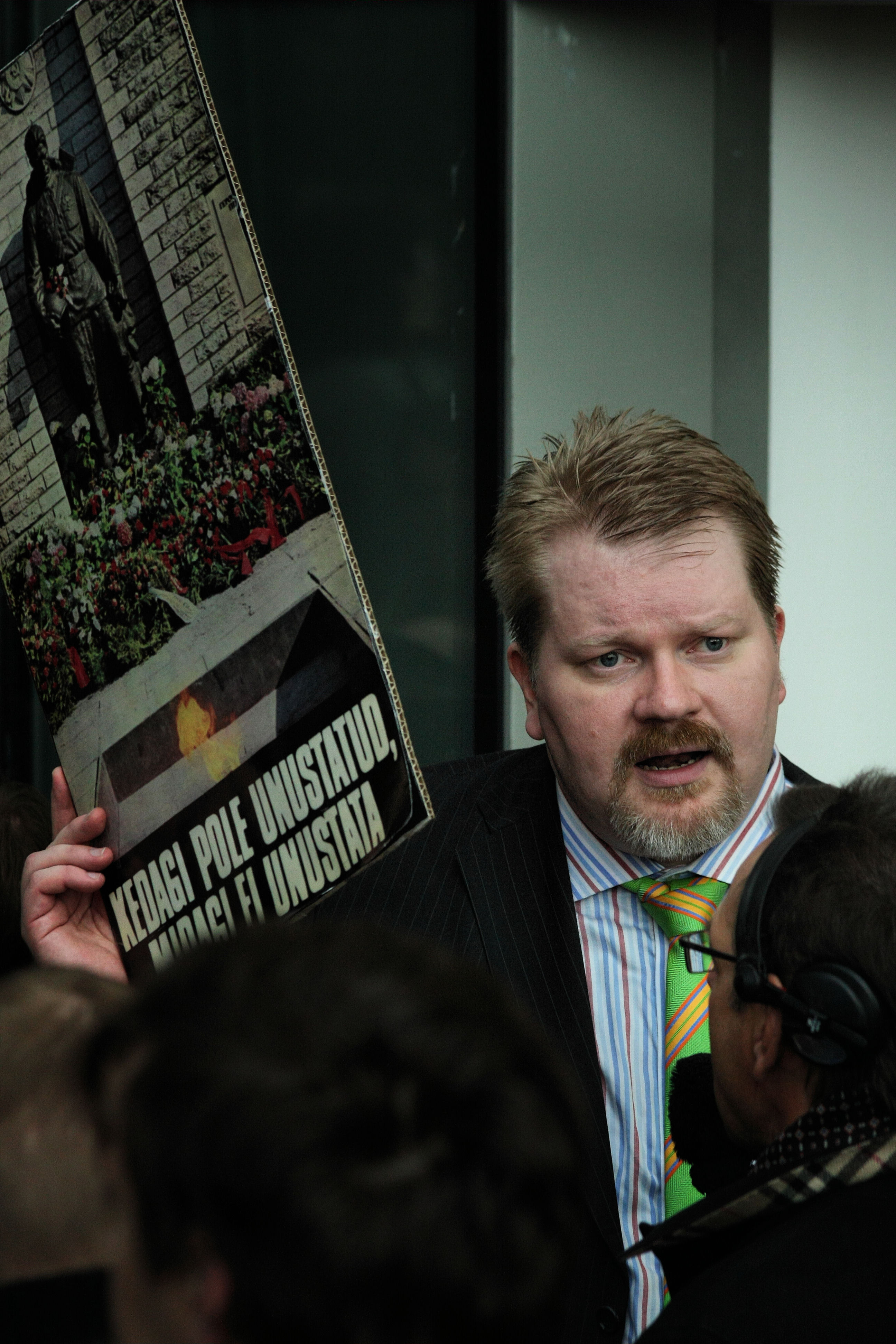 Johan Bäckman at a Nashi demonstration in Sanomatalo, Helsinki.